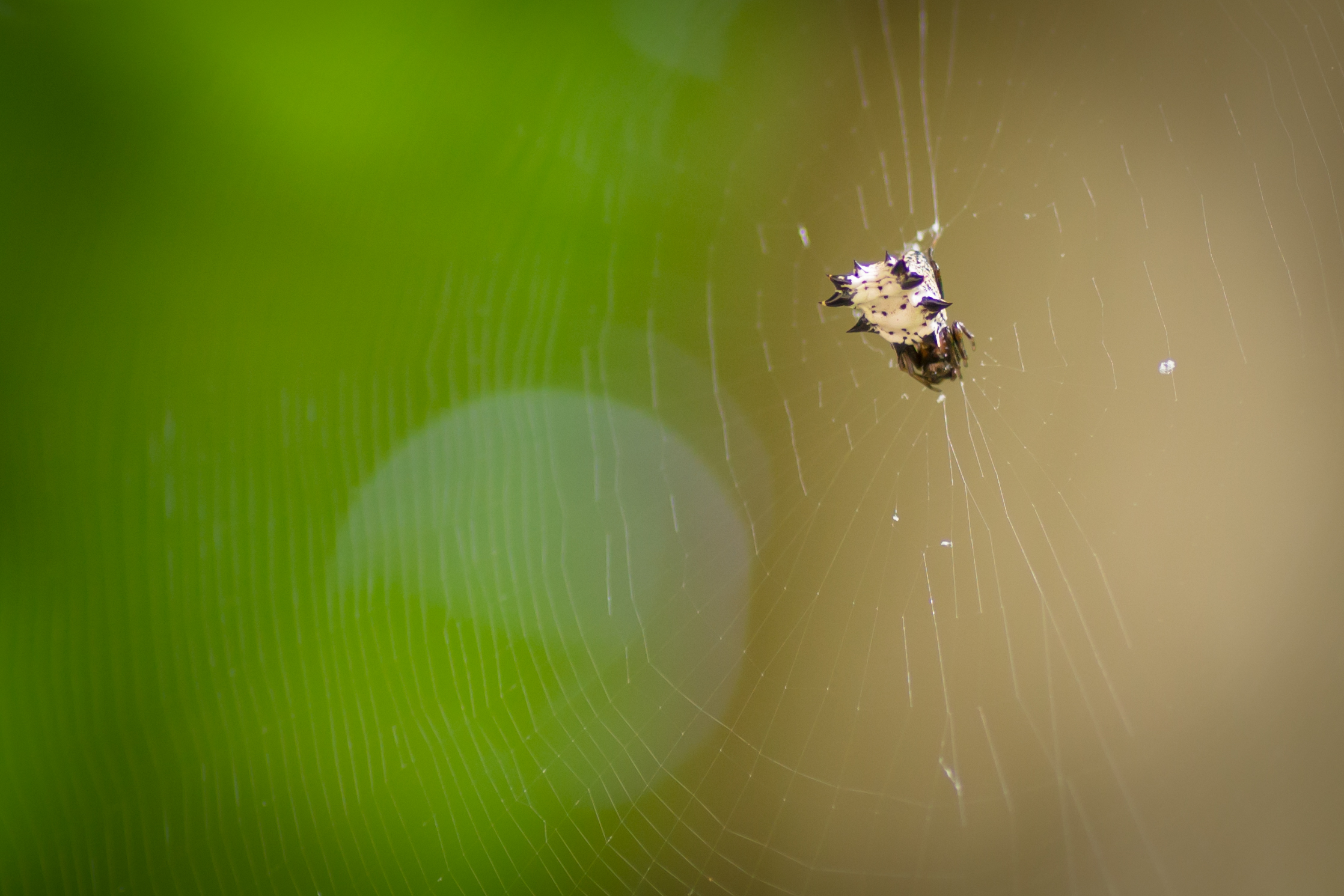 Hueston Woods State Park, College Corner, Ohio